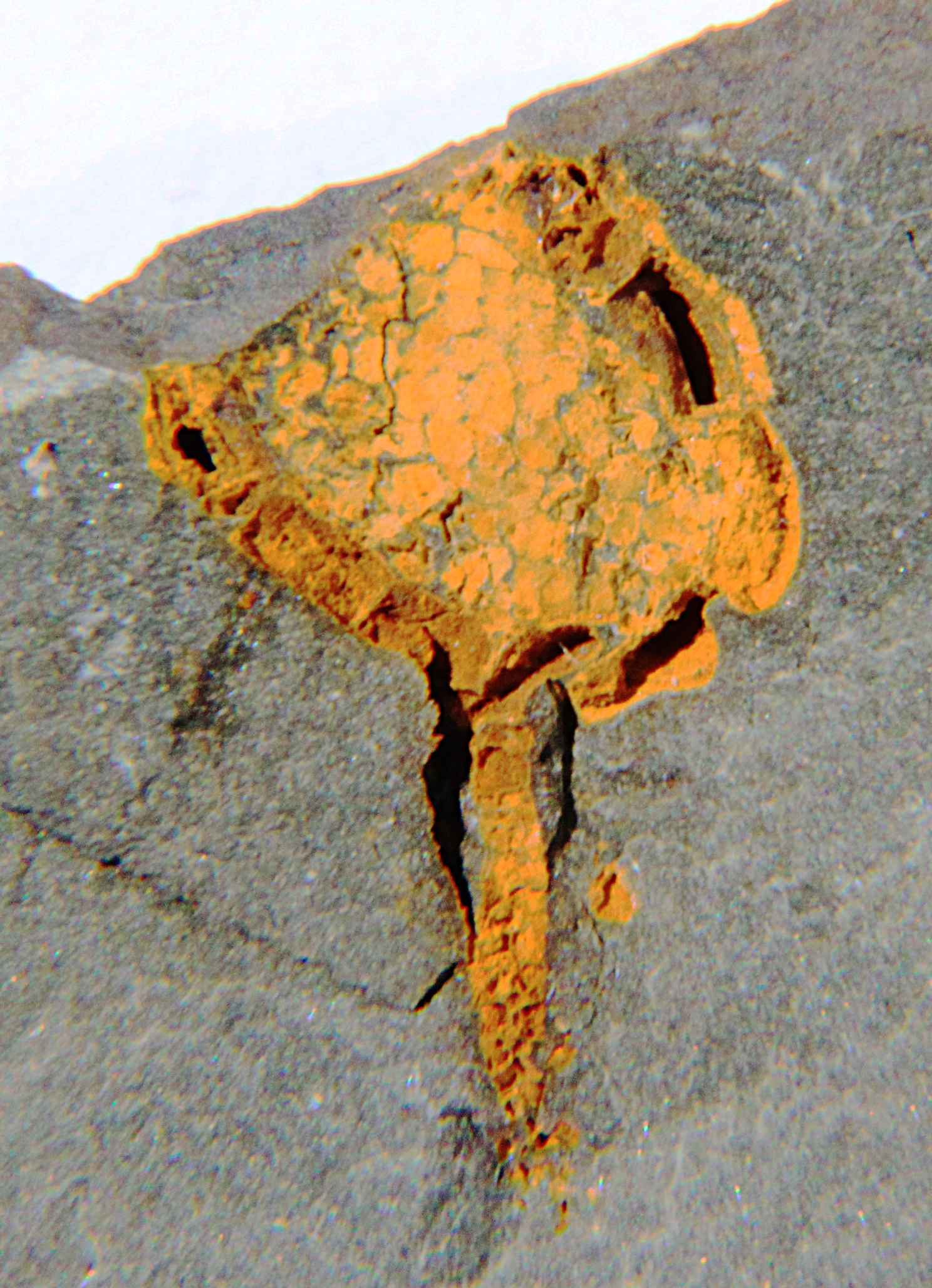 a Trochocystites bohemicus, from the Czech Republic